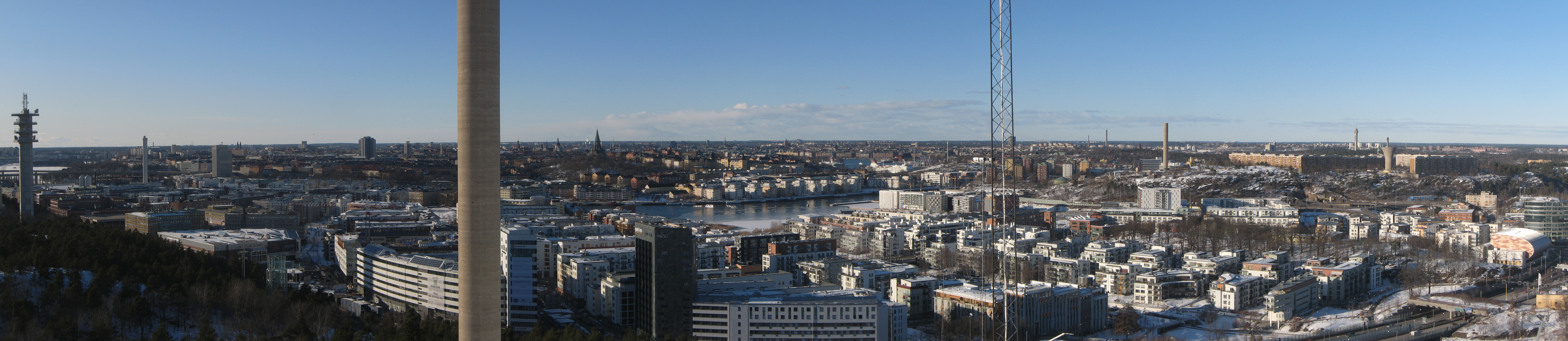 Panorama of Hammarby Sjöstad and Stockholm.